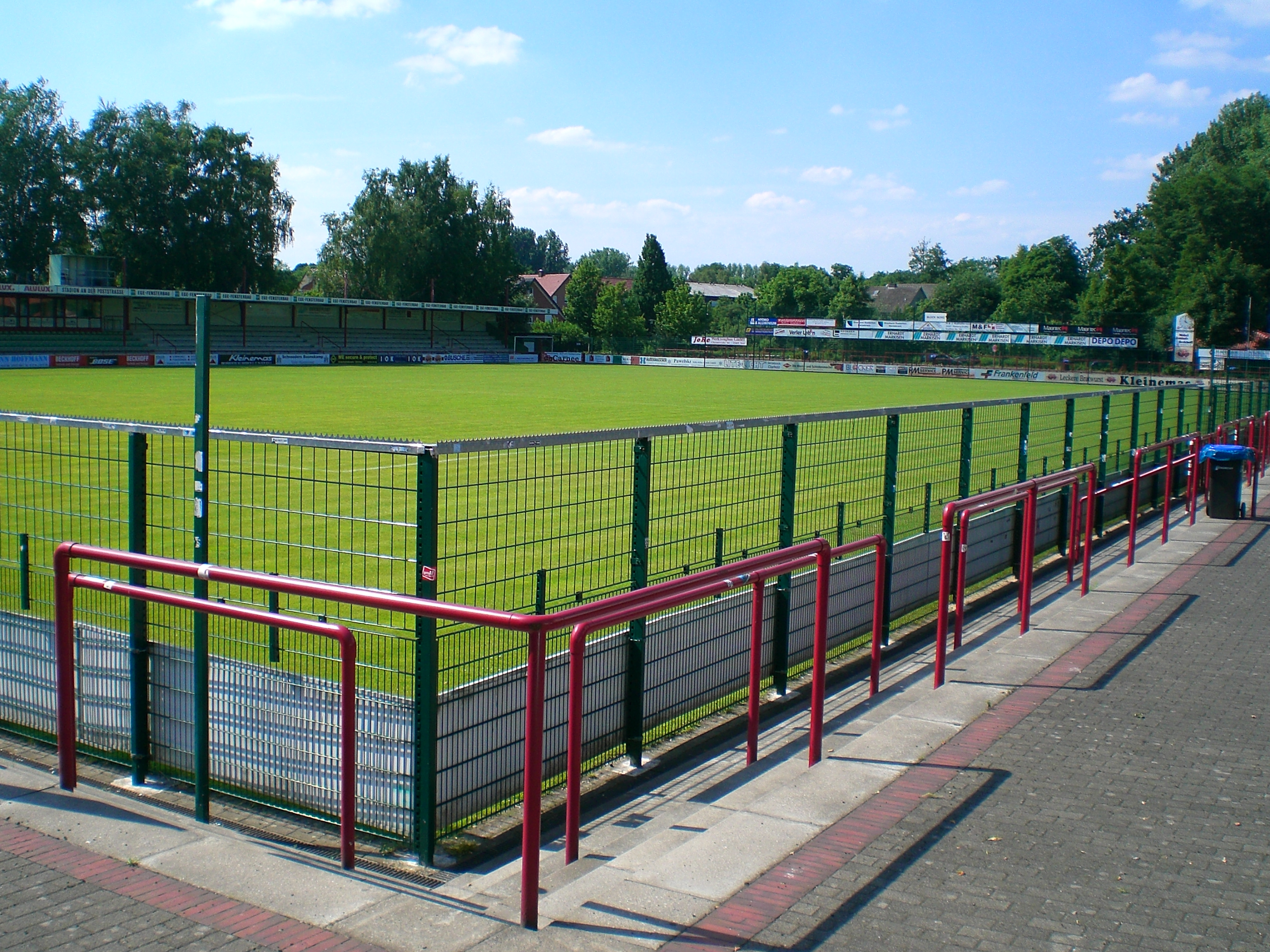 Football stadium "Stadion an der Poststraße" of Verl.